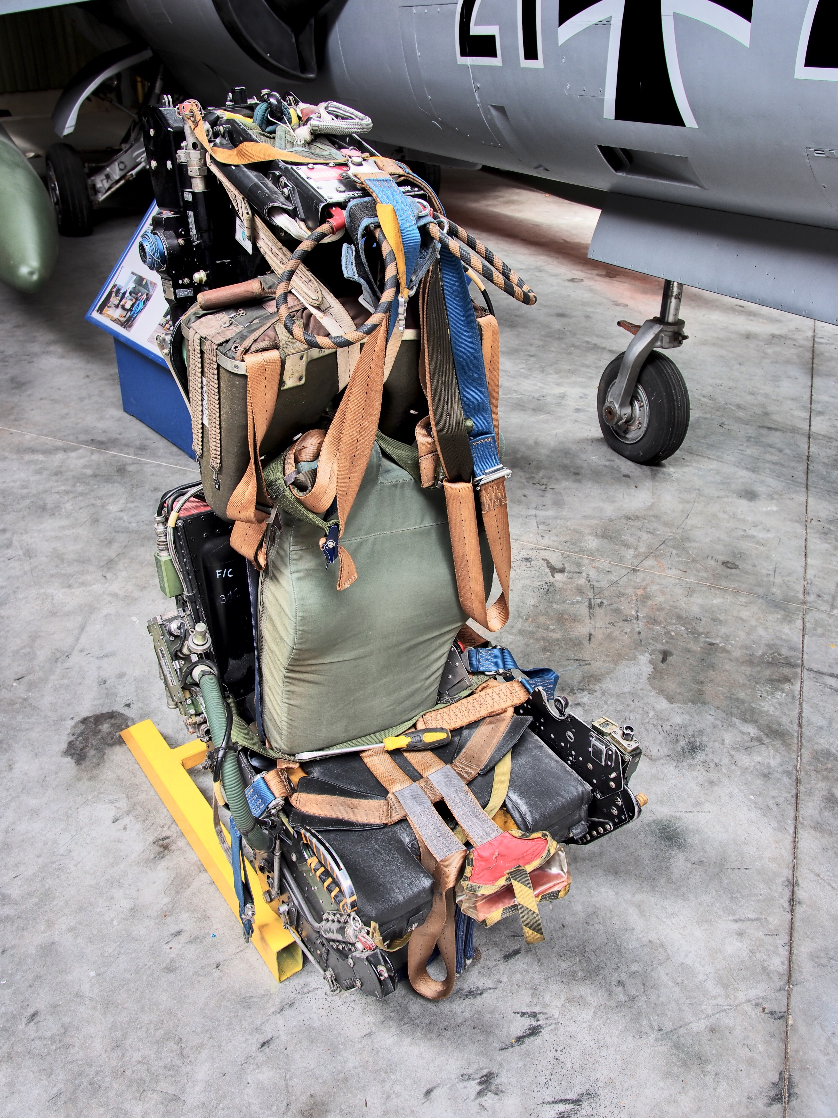 A Martin-Baker Mk.7 Ejection seat from an F-104G photographed at Piet Smedts Aero, Baarlo, The Netherlands.